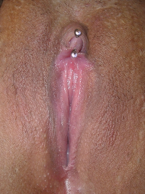 "Barbie look" Labiaplasty. Surgery was done six years ago, clitoris piercing soon afterwards. I'm fully satisfied with the result.